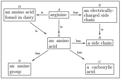 A short flowchart of olog.